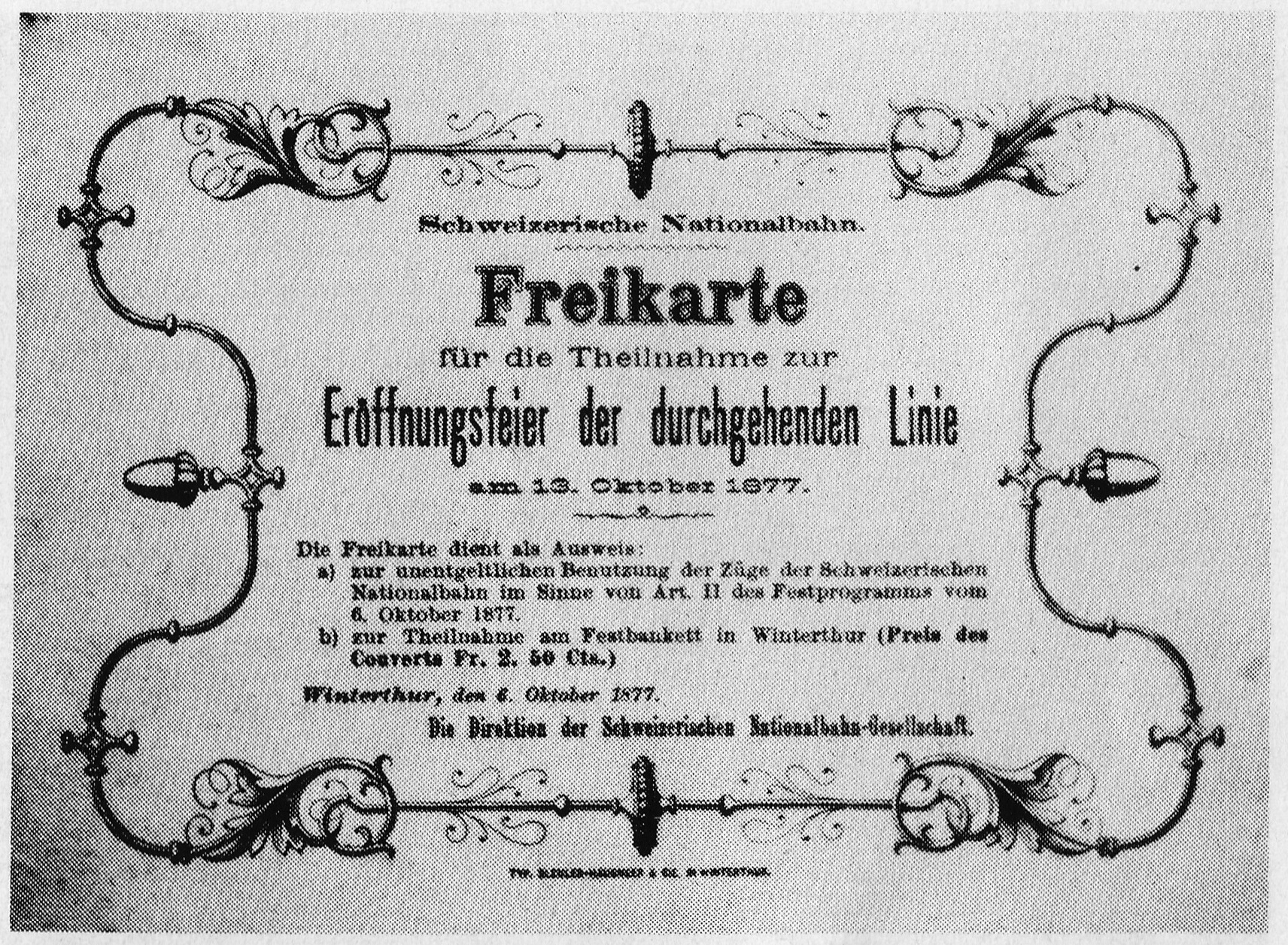 Free Ticket for Attendance at the Dedication Ceremony of the continuous Swiss National Railway line on the 13th October 1877.